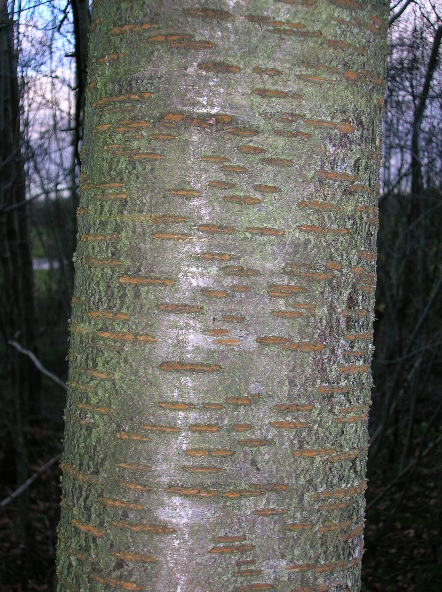 Lenticels on a mature Gean or Wild Cherry.